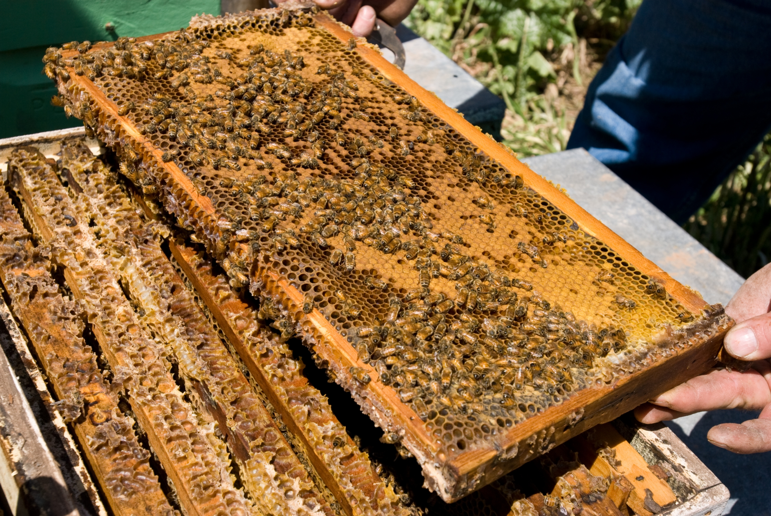 About one third of all food is produced as a result of insect pollination, and the European honeybee, Apis mellifera, is responsible for about 80% of this. In Australia, farmers rely on large populations of feral European honeybees (managed bees gone wild). The European honeybee is under threat The Asian honeybee, Apis cerana, poses a significant threat to these populations as it is a host to two types of predatory mites with the capacity to wipe out huge numbers of the European honeybee – the varroa mite (Varroa destructor) and the Asian bee mite (Tropilaelaps clareae). Dr Anderson is currently using molecular and physical methods to investigate the ecology, epidemiology, invasiveness, co-evolution and control of exotic parasitic bee mites and their Asian honeybee hosts.